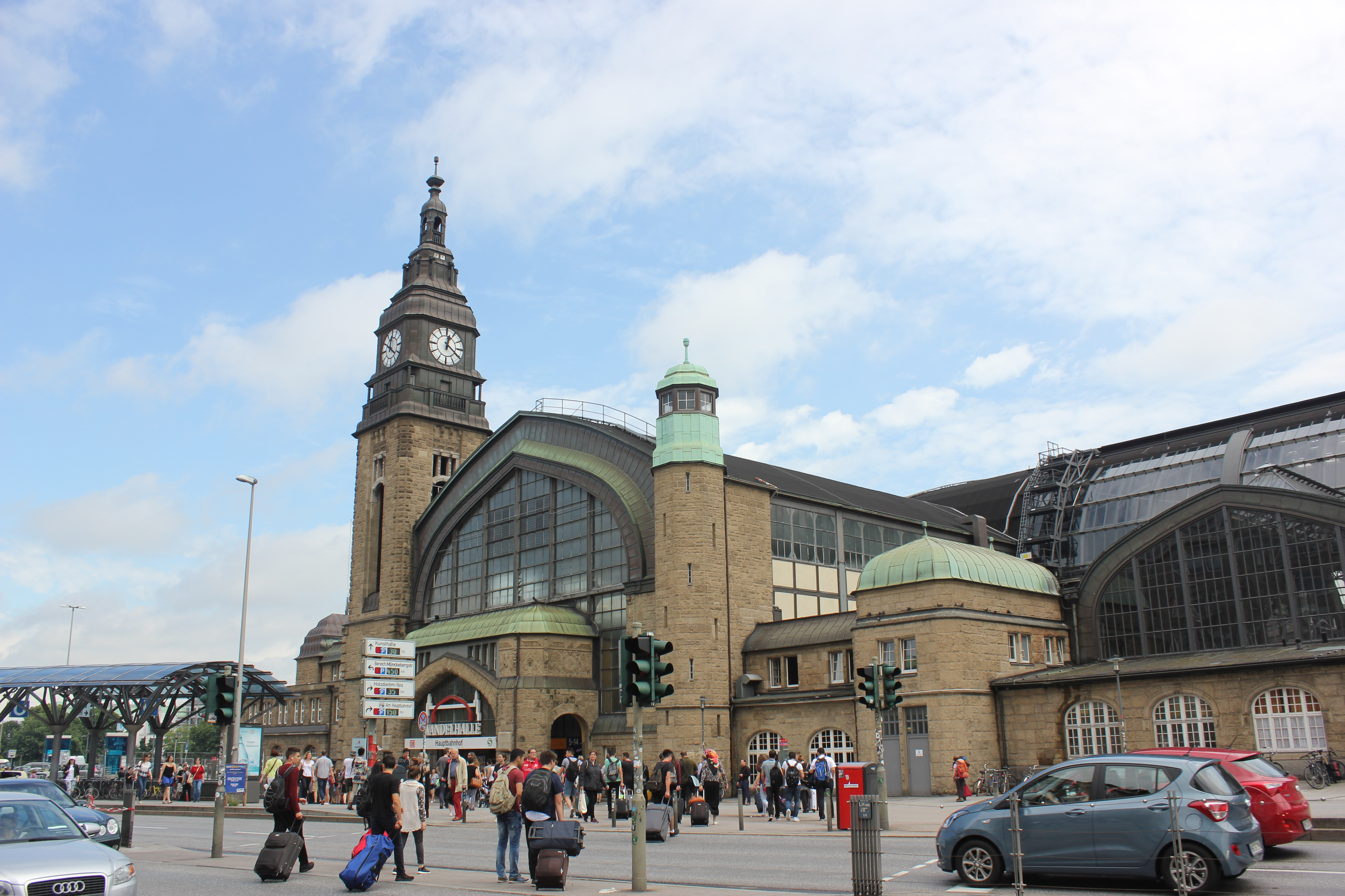 Hamburg - Central Station